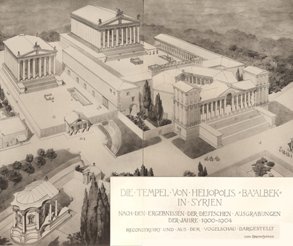 The temples of Heliopolis - Baalbek according to the results of the German excavations in 1900-1904; reconstructed and shown from a bird's eye view ( Translated from the original German description)